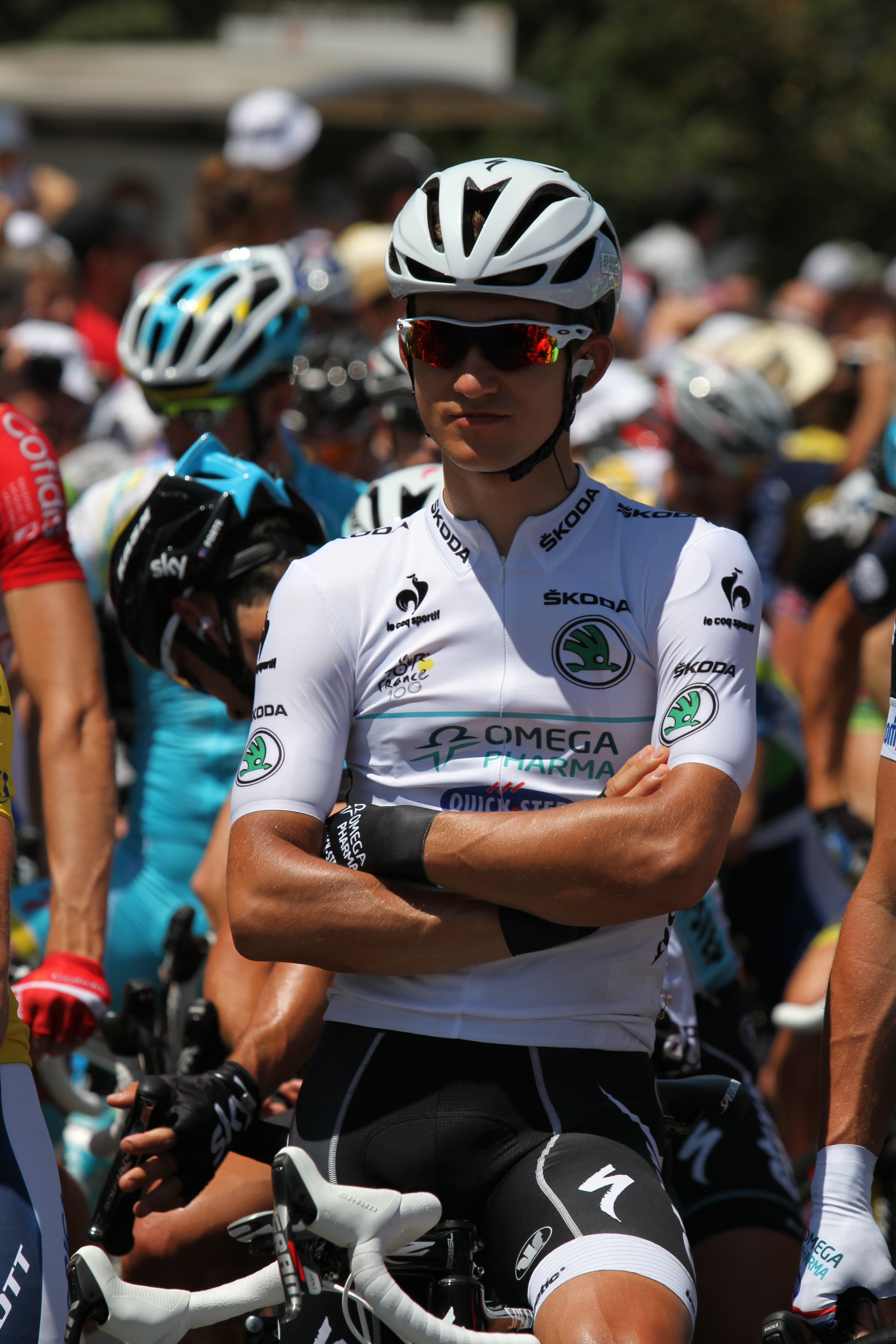 Michał Kwiatkowski during Stage 6 of the Tour de France 2013 in Aix-en-Provence (Bouches-du-Rhône, France)